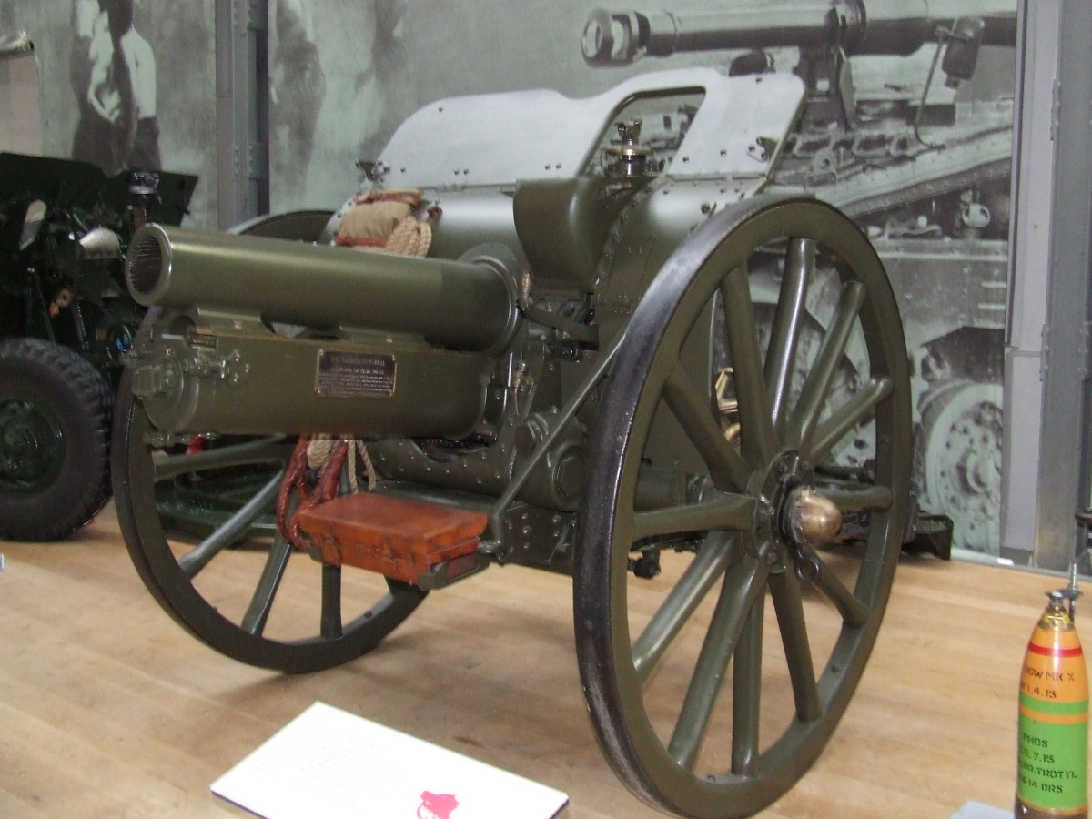 Photograph of British QF 4.5 inch howitzer, World War I vintage, at the Royal Artillery Museum, Woolwich, London.